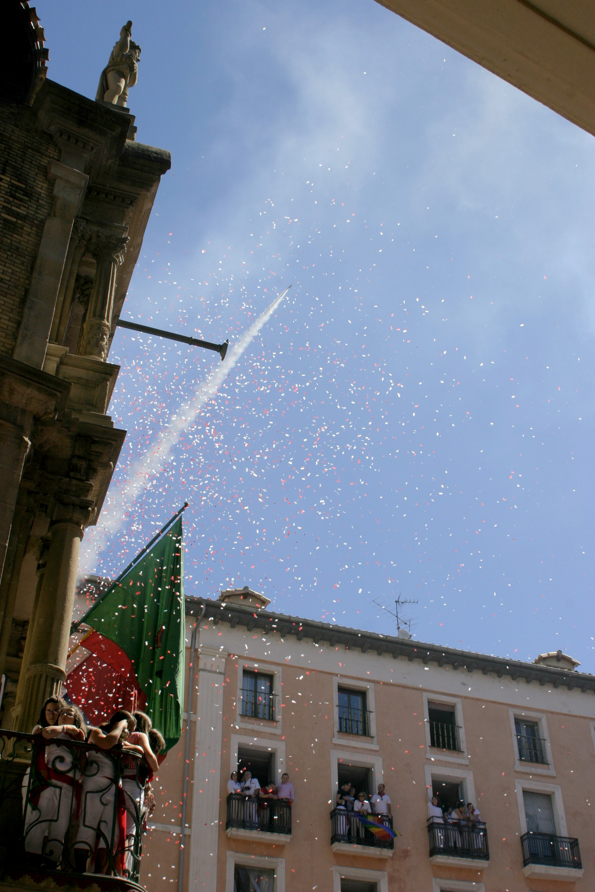 Rocket thrown from the Town Hall of Pamplona (Spain) that signifies the beginning of the San Fermin festival.